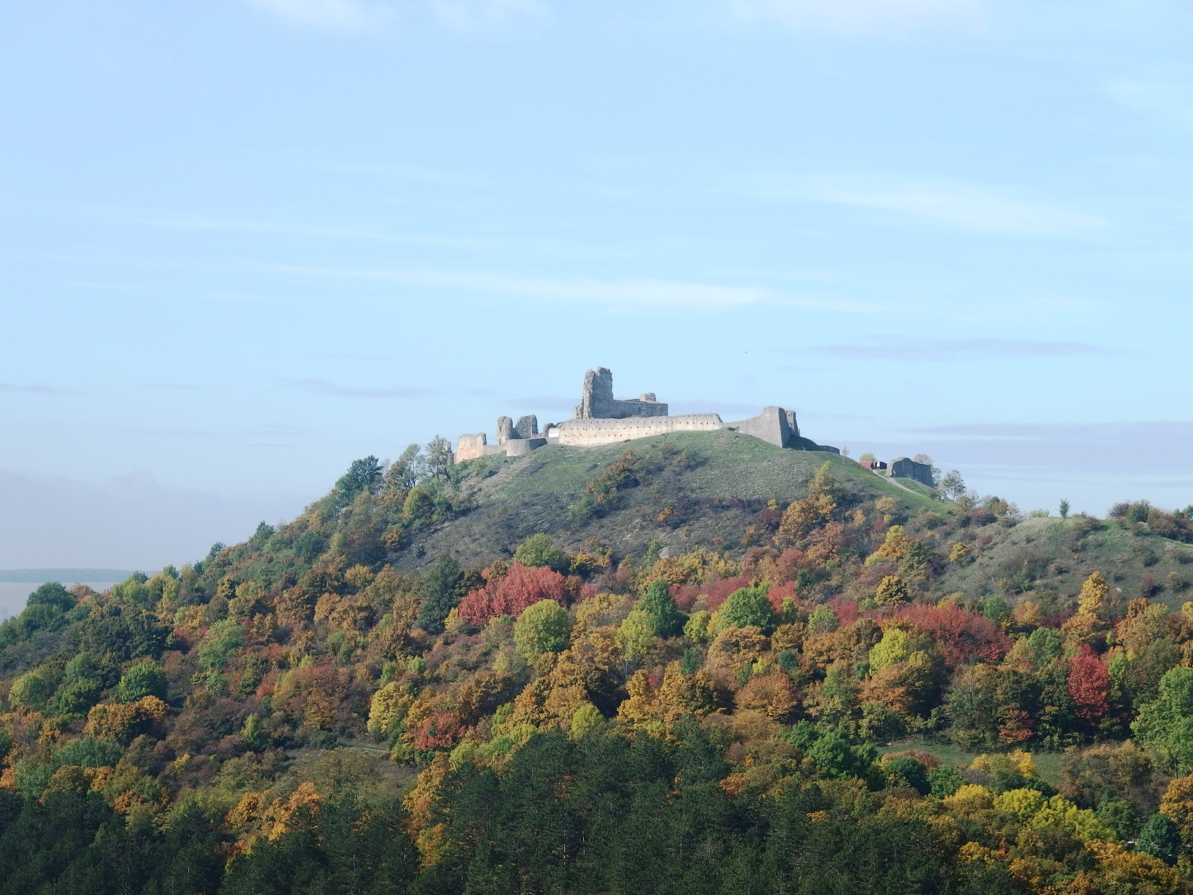 Podbranč, Senica District, Slovakia. Branč Castle.